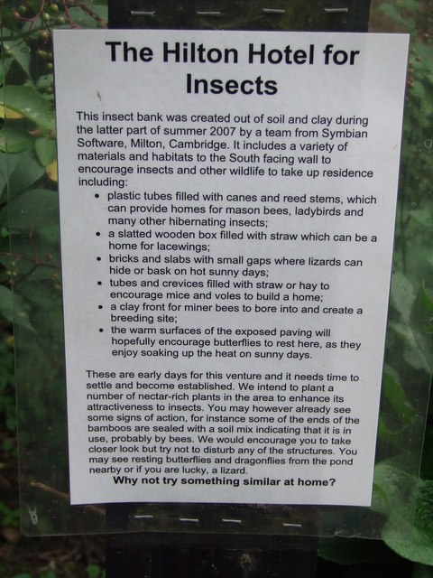 Insect Hotel. Notice for the insect hotel that provides habitation for bugs and beasts, part of the discovery area for children to explore at Anglesey near to Lode, Cambridgeshire. For full view of the hotel see 1432130